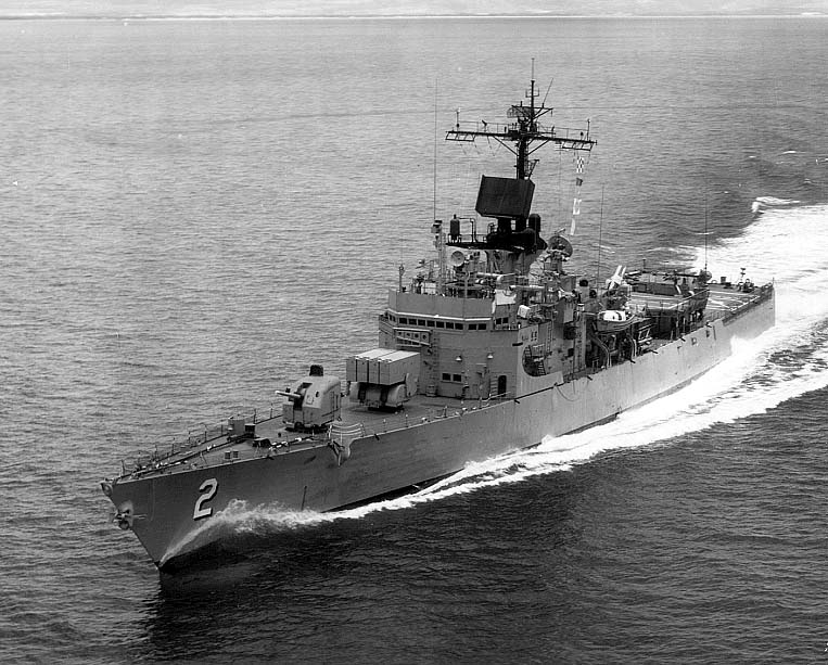 The U.S. Navy guided missile ocean escort USS Ramsey (DEG-2) underway off the coast of Oahu, Hawaii (USA), on 28 August 1972.